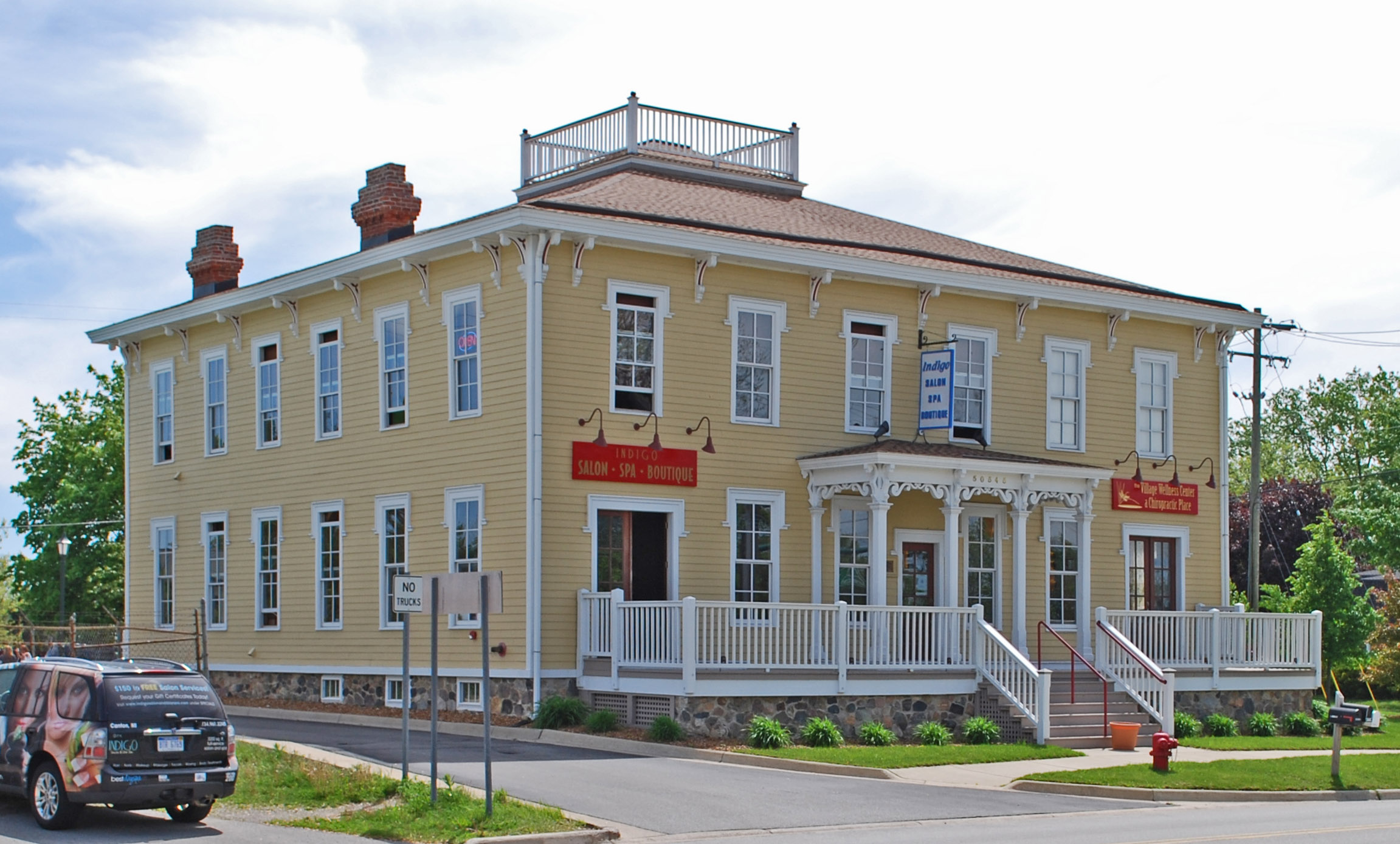 Building in Cherry Hill Historic District, corner of Cherry Hill and Ridge, MI